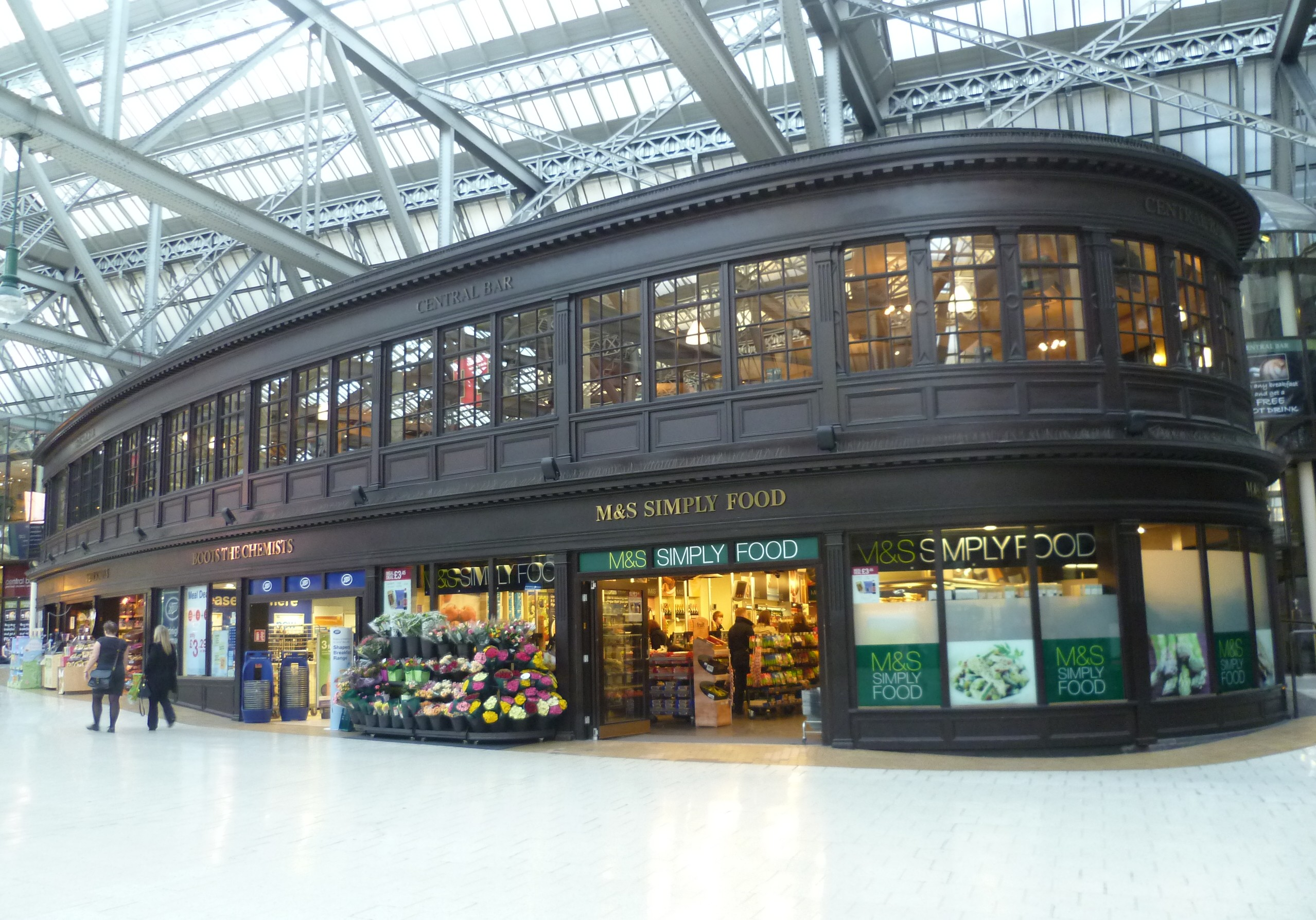 Glasgow Central Station concourse